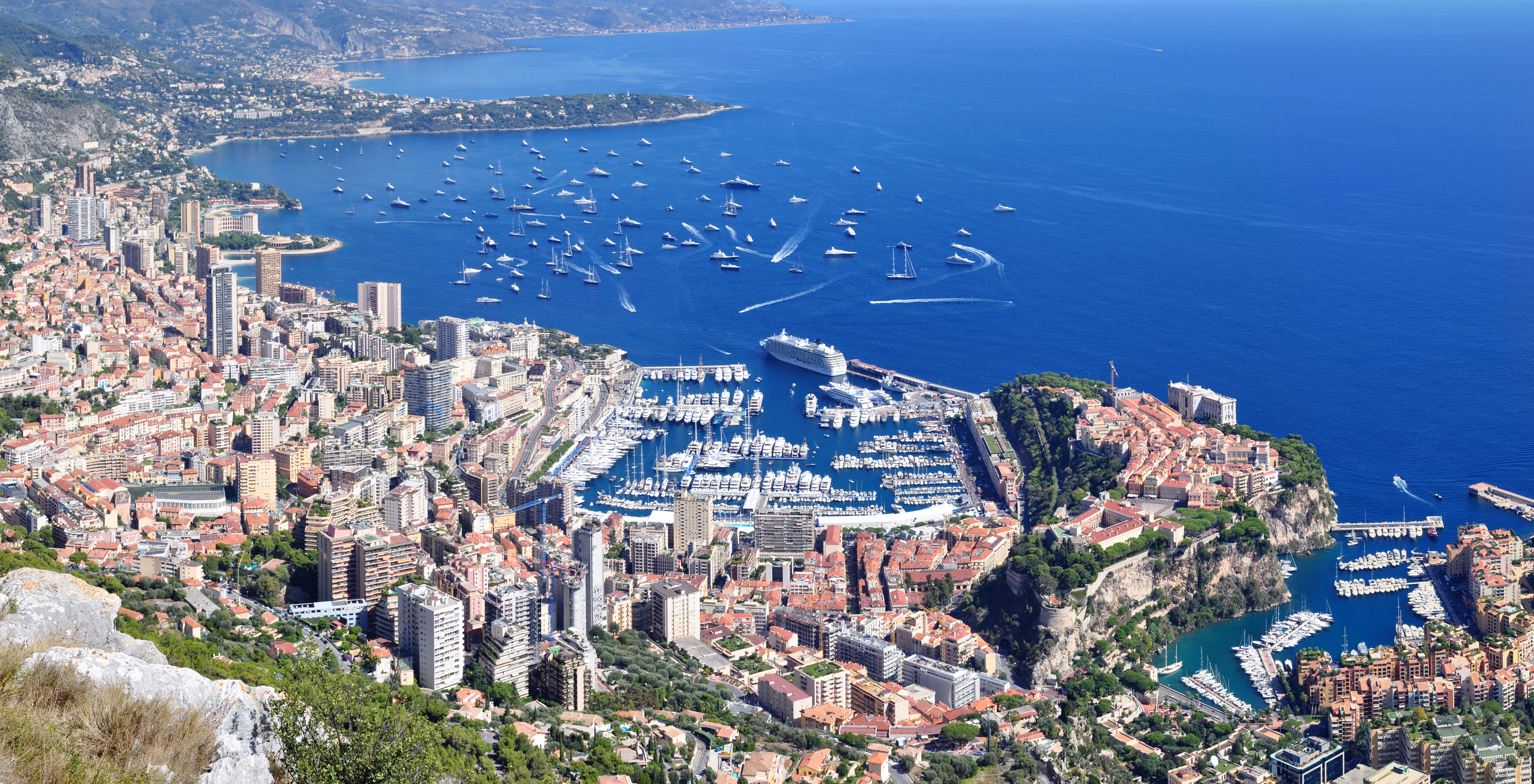 panoramic view of Monaco from a viewpoint near the observatory which is situated in the south of the village of "La Turbie"